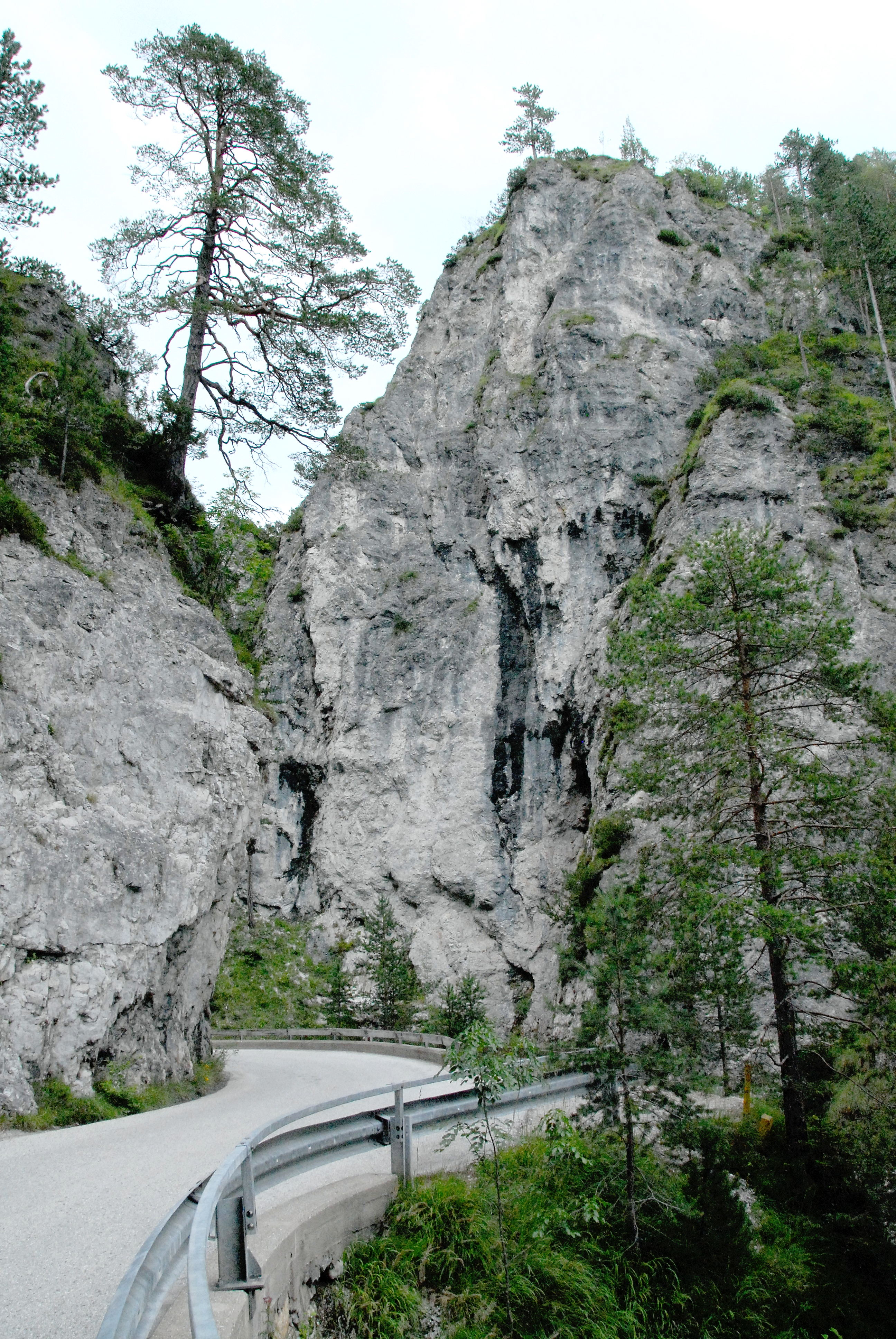 Road through the Troegern canyon in the community Eisenkappel-Vellach, district Völkermarkt, Carinthia, Austria, European Union.